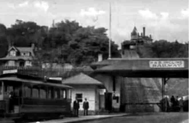 The Hamilton Street Railway funicular for crossing the Niagara escarpment.